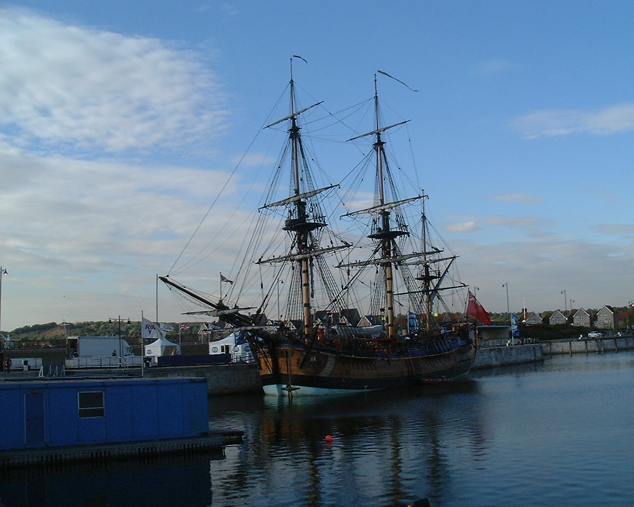 HM Bark Endeavour visited Chatham Dockyard, No. 2 basin, in 2003. Her mooring location is give below. Moored at the quayside, taken from port bow